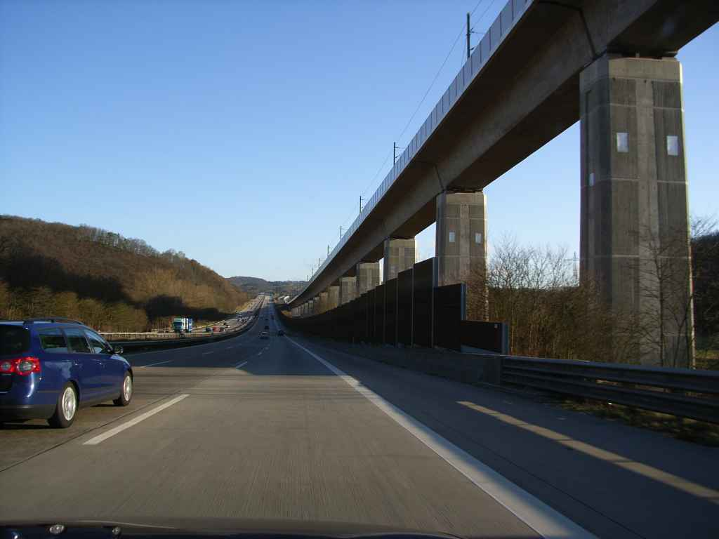 Hallerbachtal Bridge on the Cologne-Frankfurt high-speed railway line